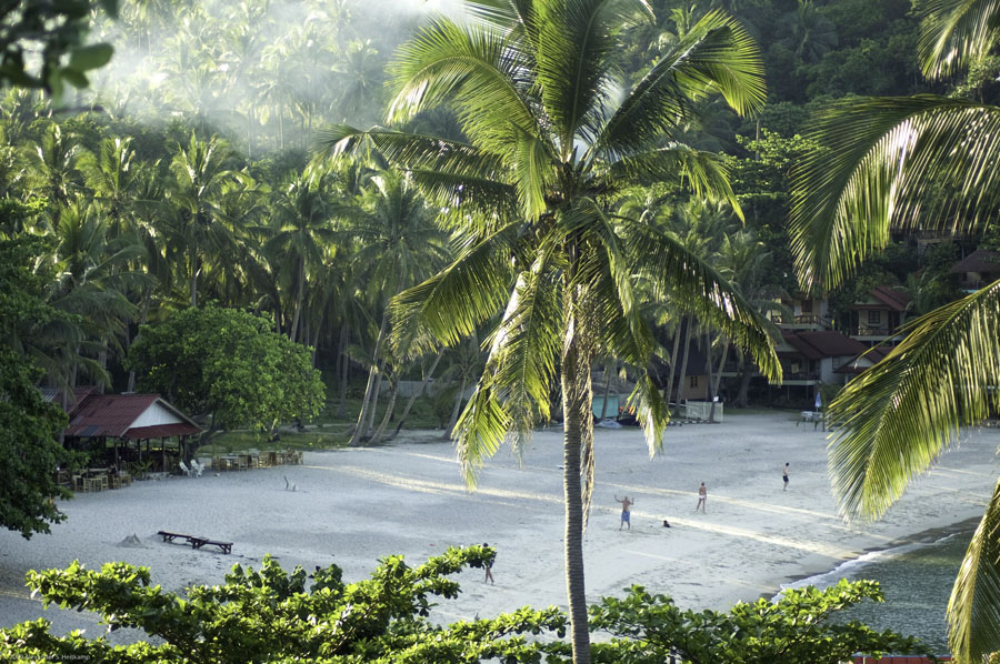 Than Sadet Beach on Koh Phangan's east coast.